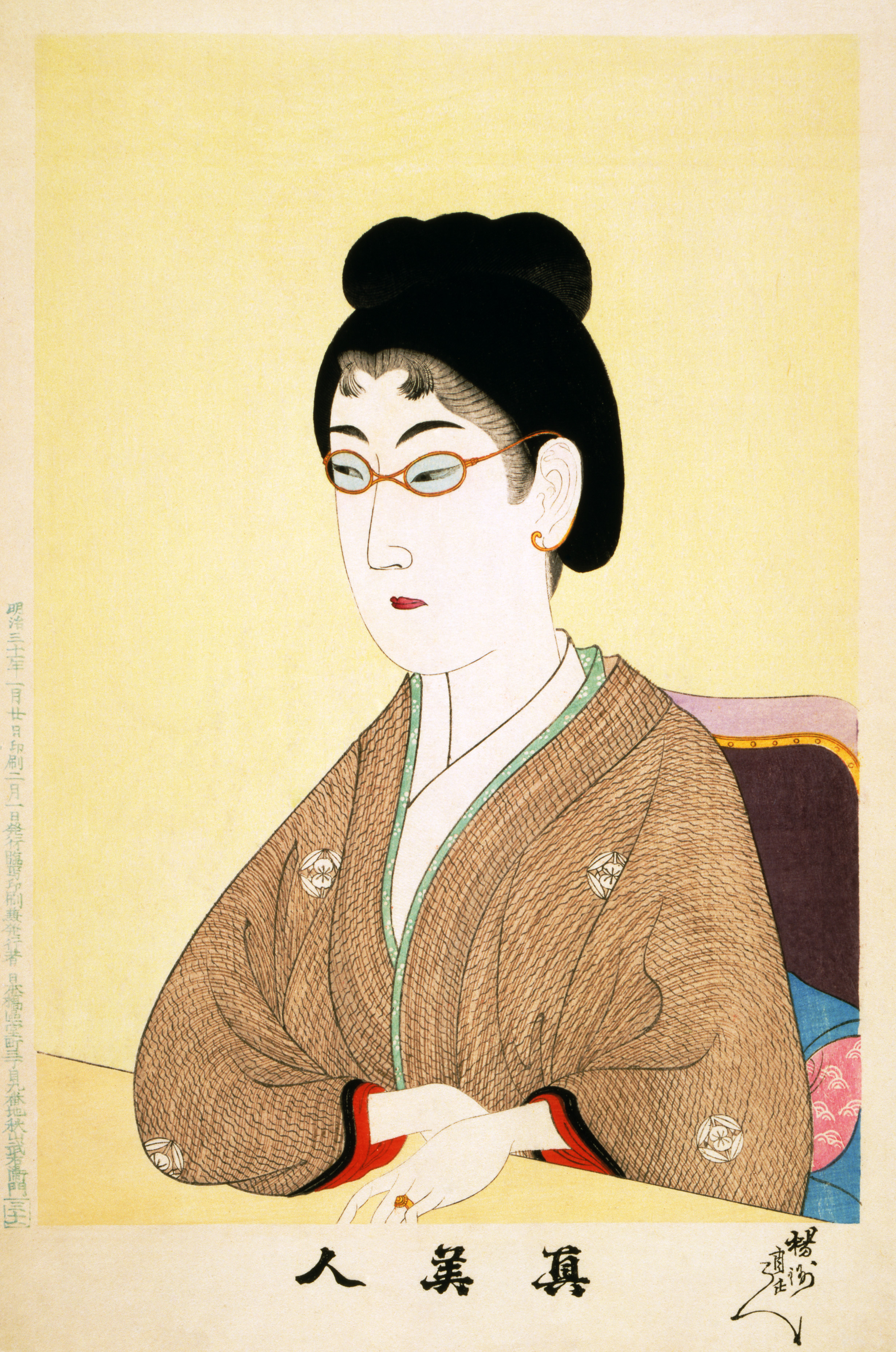 From the book Shin Bijin (True Beauties) by Chikanobu Hashimoto. Ukiyo-e print showing a woman seated at a table dressed in a kimono and wearing eyeglasses. Chikanobu, Shin Bijin (True Beauties). Color woodcut book, 1897. Some artists, such as Yoshitoshi and Chikanobu, produced both Yokohama-e and more traditional Ukiyo-e. For the latter they tended to stay close to conventional themes, although their beauties, historical scenes, and heroes often exhibited a distinctly Western flavor. Here Chikanobu blends the Ukiyo-e tradition of beauty prints with a Western twist, topped off by the fetching wire spectacles worn by this beauty.